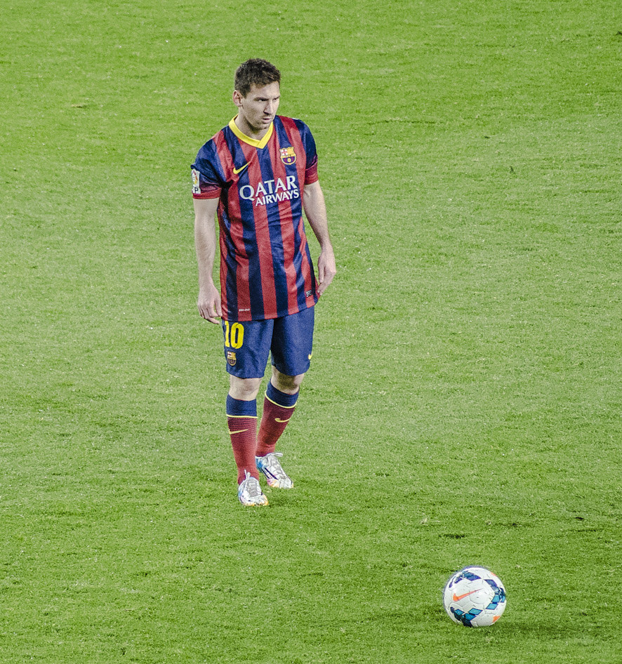 Leo Messi playing for FC Barcelona against Almeria on 2 March 2014